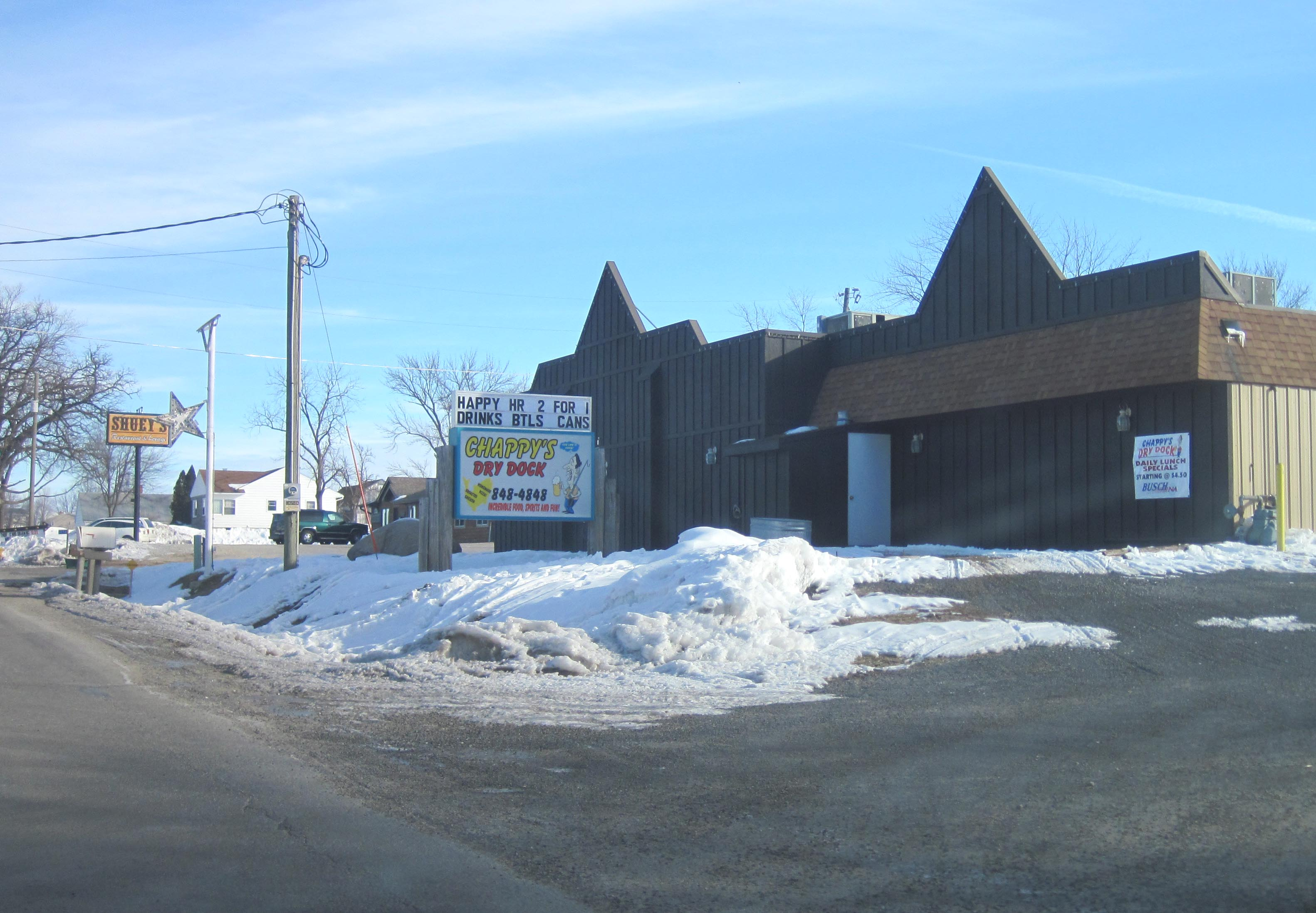 Downtown Schueyville, such as it is. Bill Whittaker (talk) 00:40, 28 February 2010 (UTC)